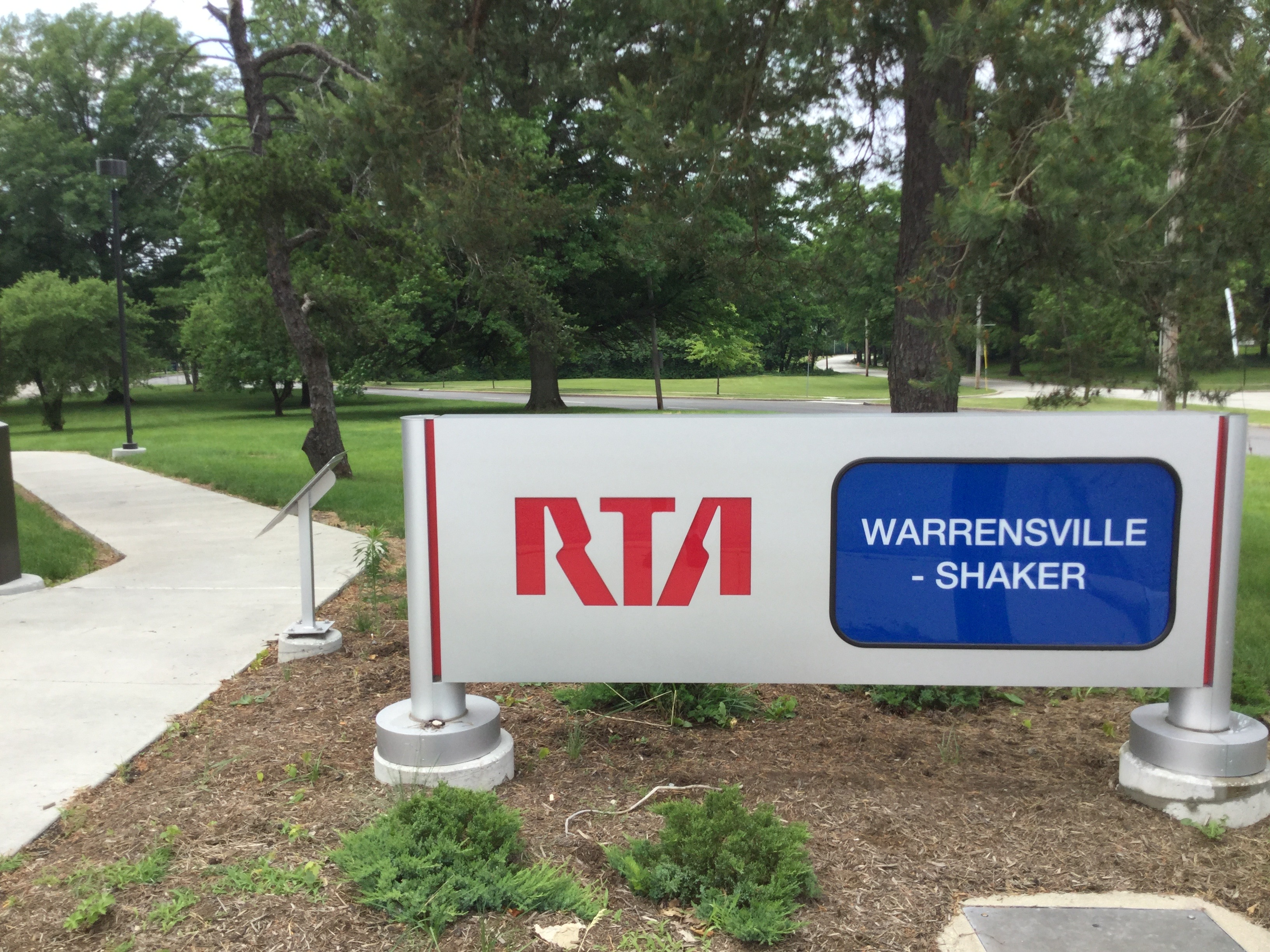 RTA station sign